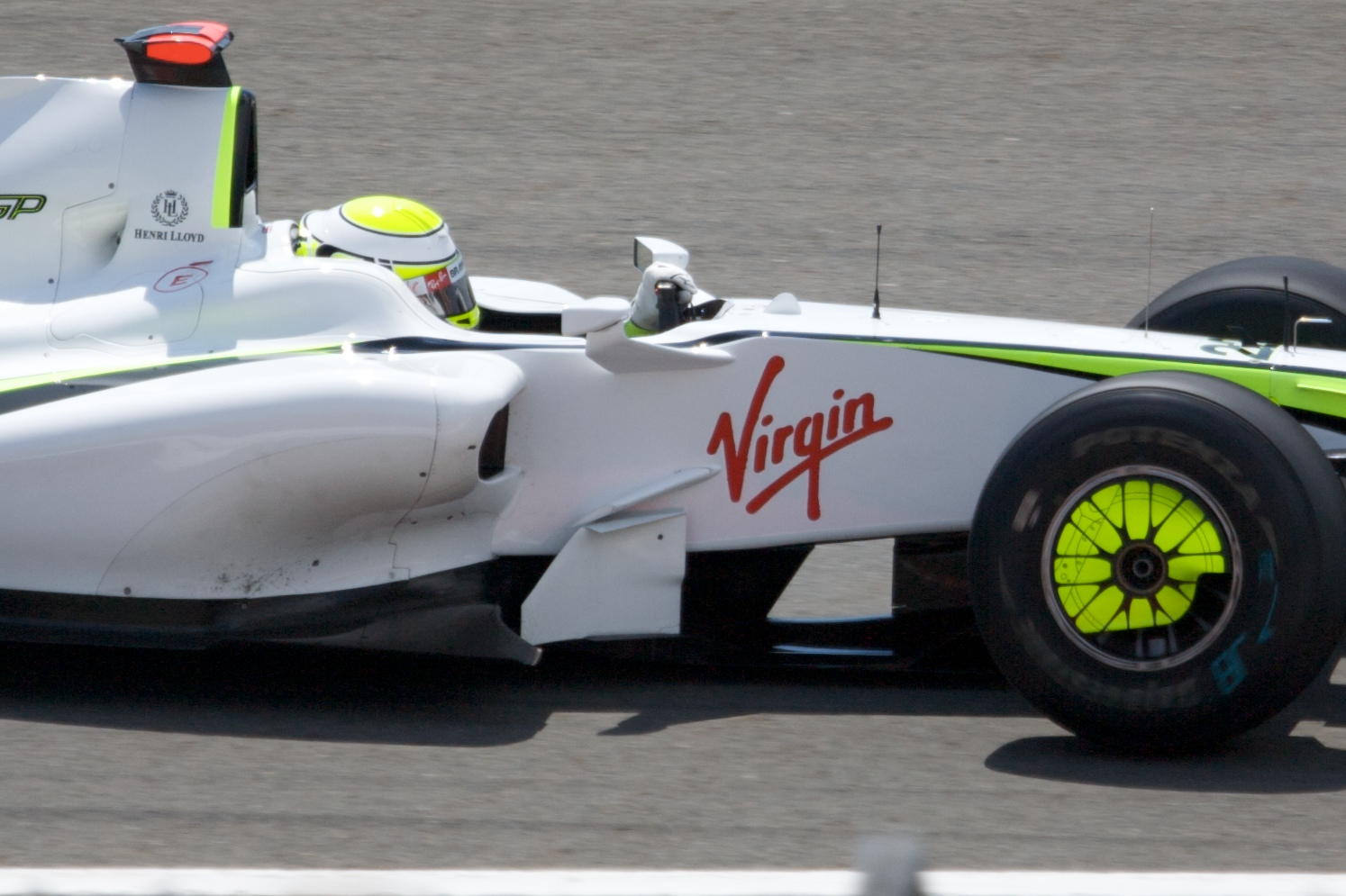 Jenson Button driving for Brawn GP at the 2009 Turkish Grand Prix.